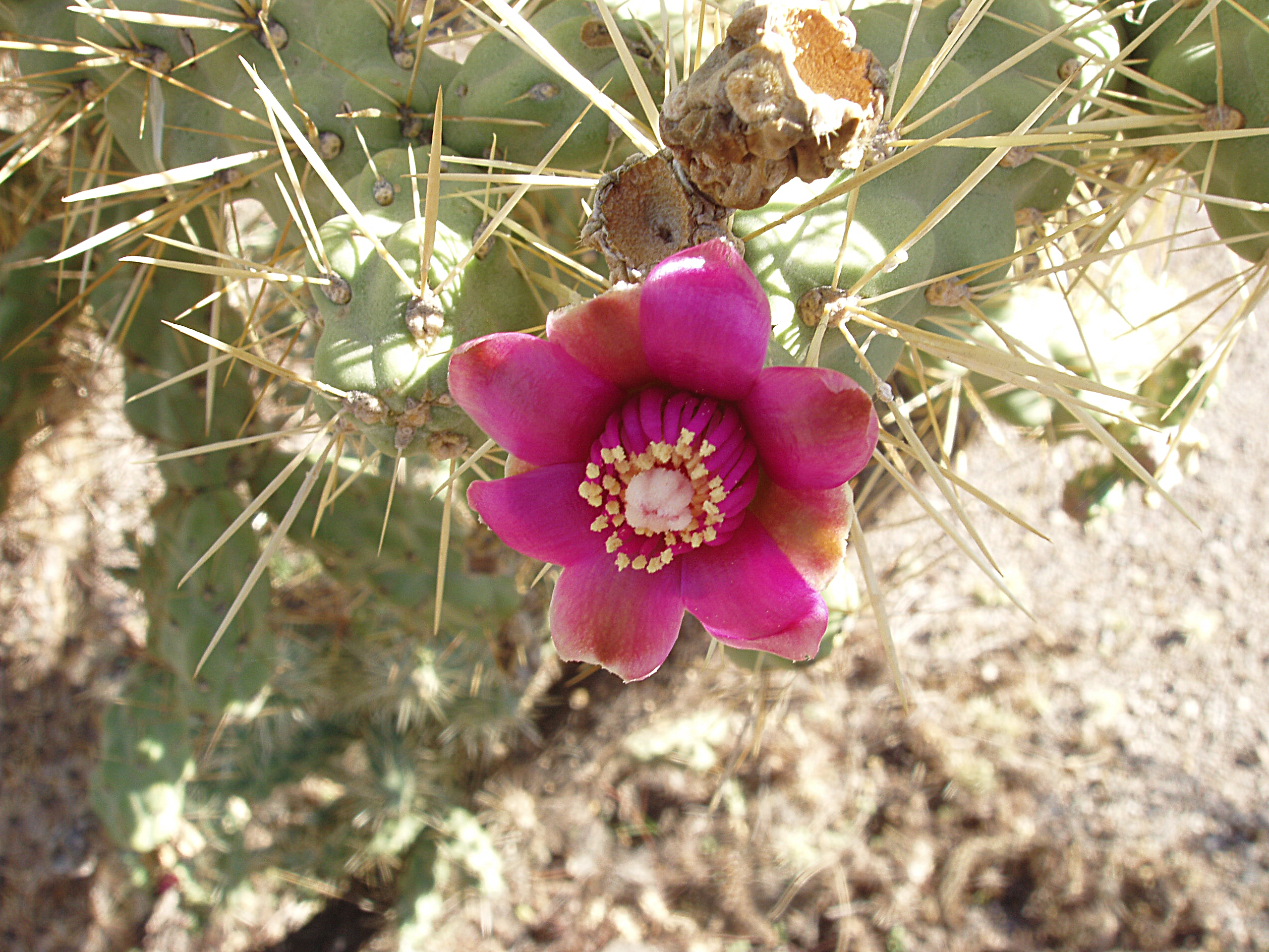 Flower of Cylindropuntia fulgida, Arizona, Saguaro Nationalpark, early august 2007